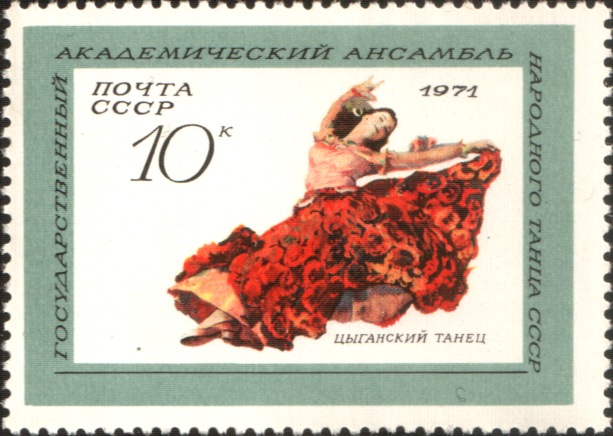 USSR stampː Romani Dance. Seriesː Ensemble of Folk Dance of Igor Moiseyev (Founded 1937.02.10)